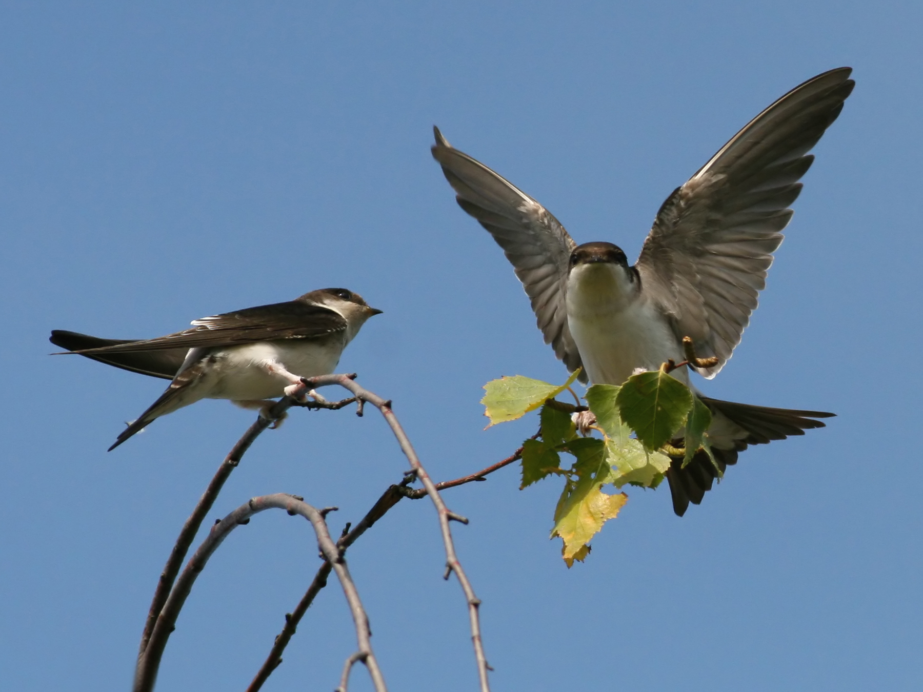 House Martin (Delichon urbicum) Photo taken on the Rheinspitz, Vorarlberg, Austria